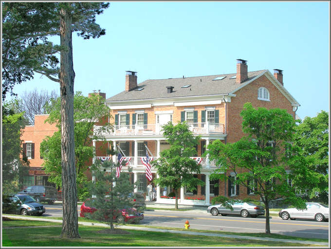 Paul Malo photograph.